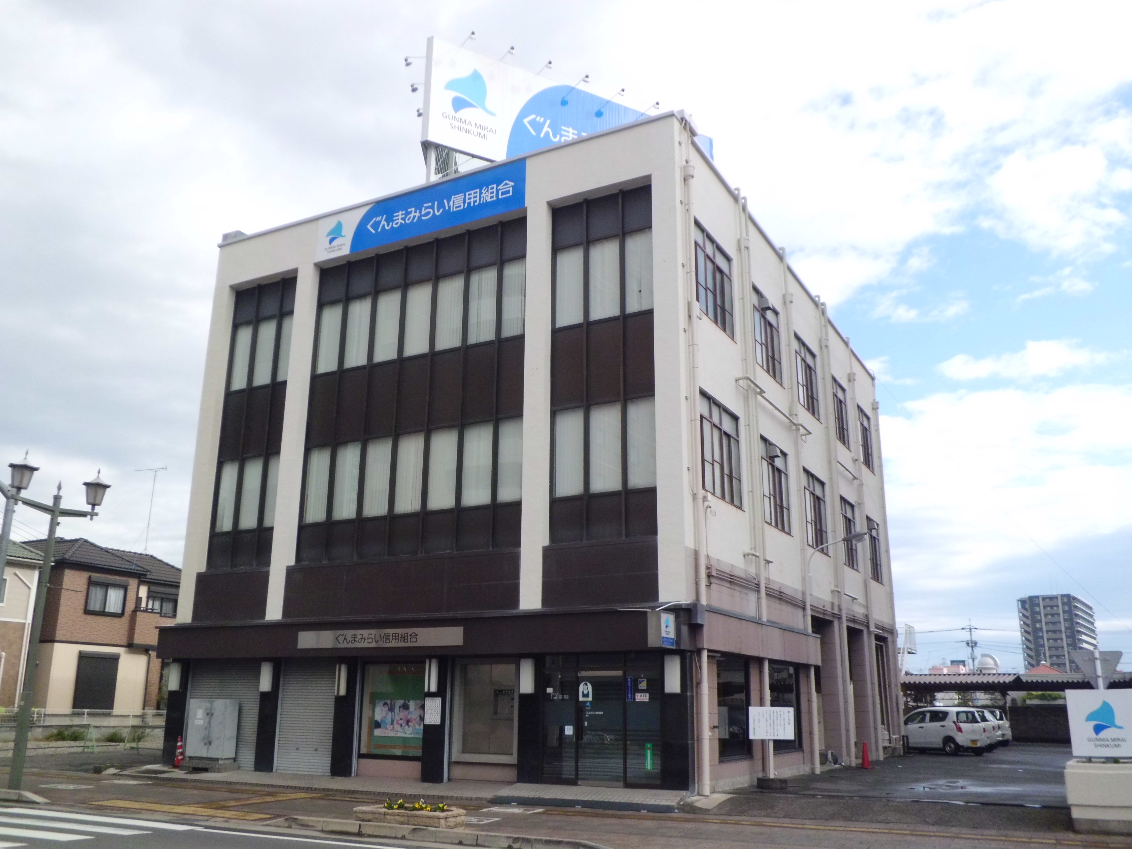 Head office of Gunma Mirai Credit Union